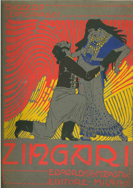 Cover of the piano/vocal score for Leoncavallo's opera Gli zingari. Published by Sonzogno, Milan, 1912